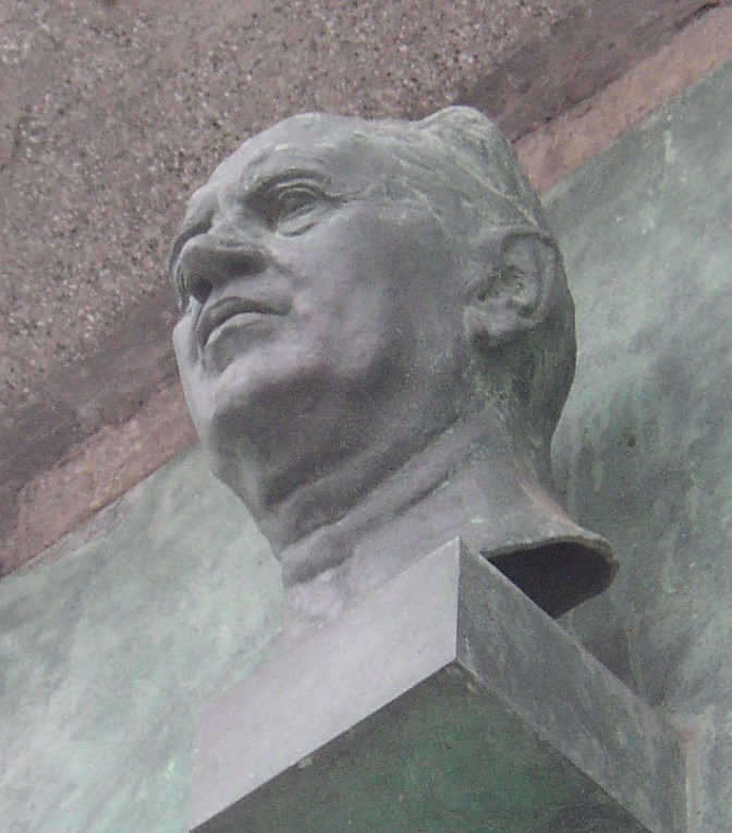 Plaque on site of birth house of Czech writer Václav Štech Located at corner of 14 Mayor Pavel Square in Kladno, Kladno District, Central Bohemian Region, Czech Republic. The 1930 bust was created by Otakar Španiel. Detail of the bust.